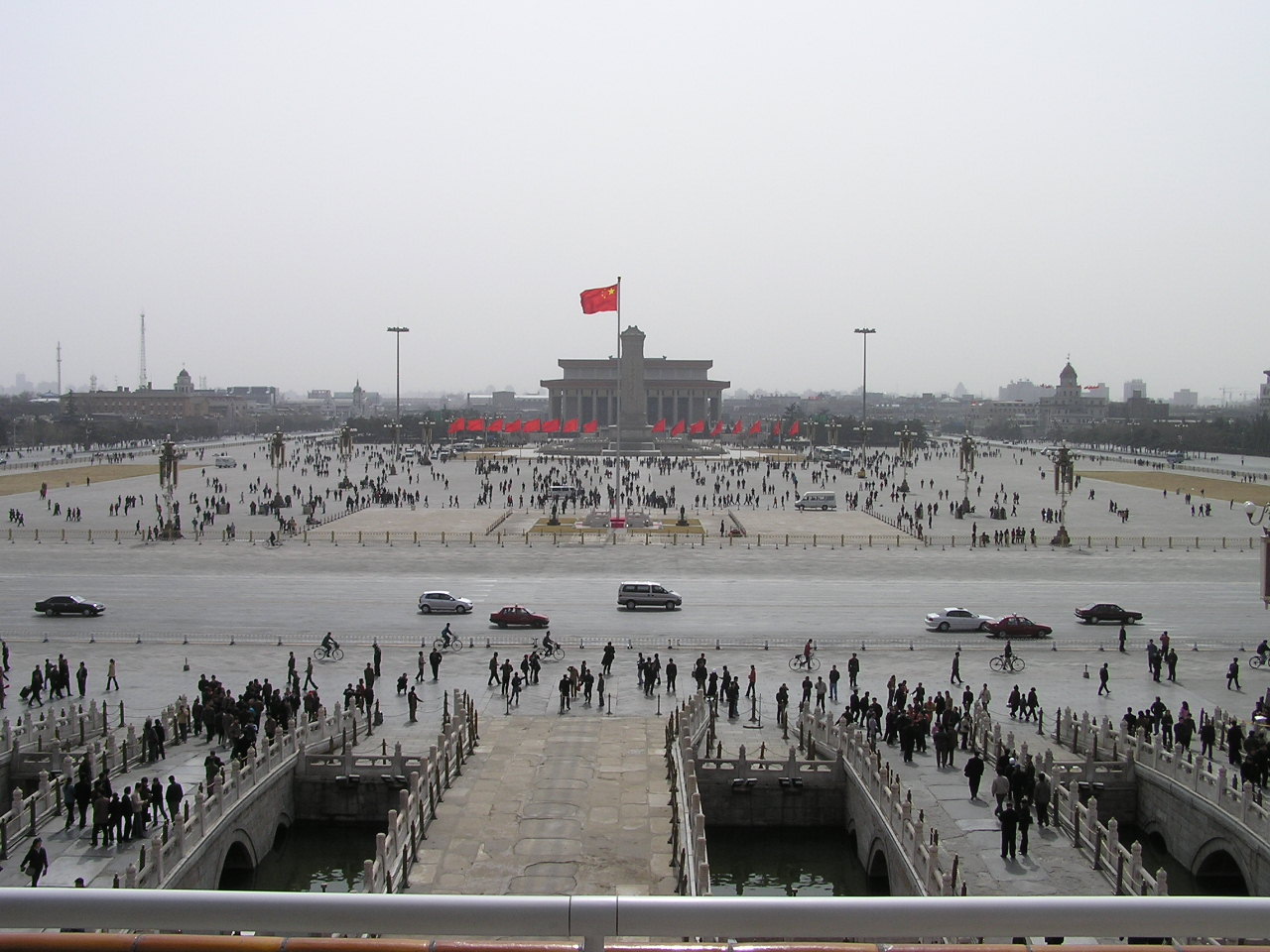 Tiananmen Square